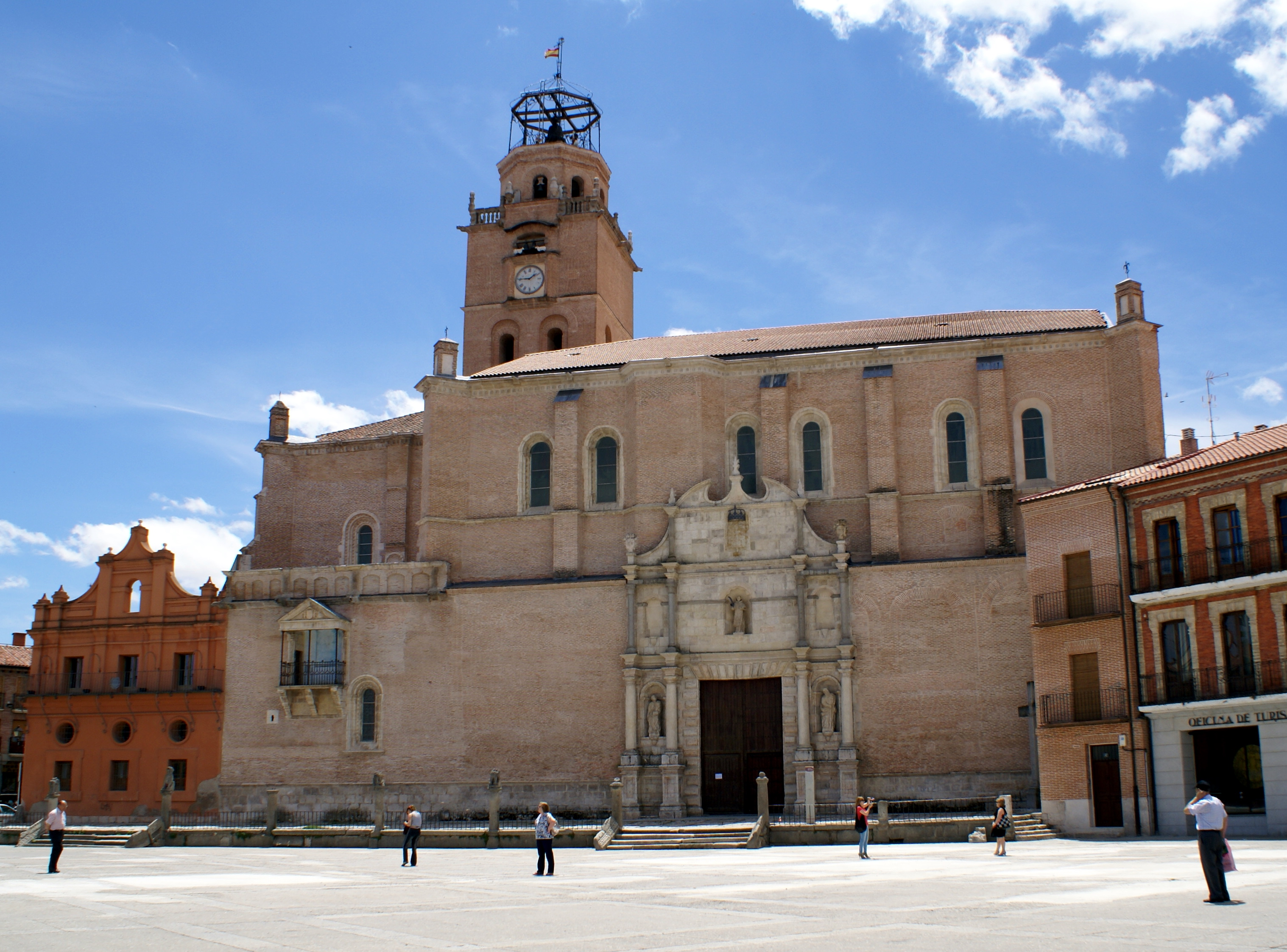 Collegiate Church of San Antolín in Medina del Campo, Valladolid, Spain.